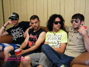 Current band member of Canadian band Faber Drive. From left to right: Faber, JP, Krikit, Stricko.